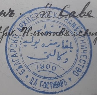 Gostivar Bulgarian seal